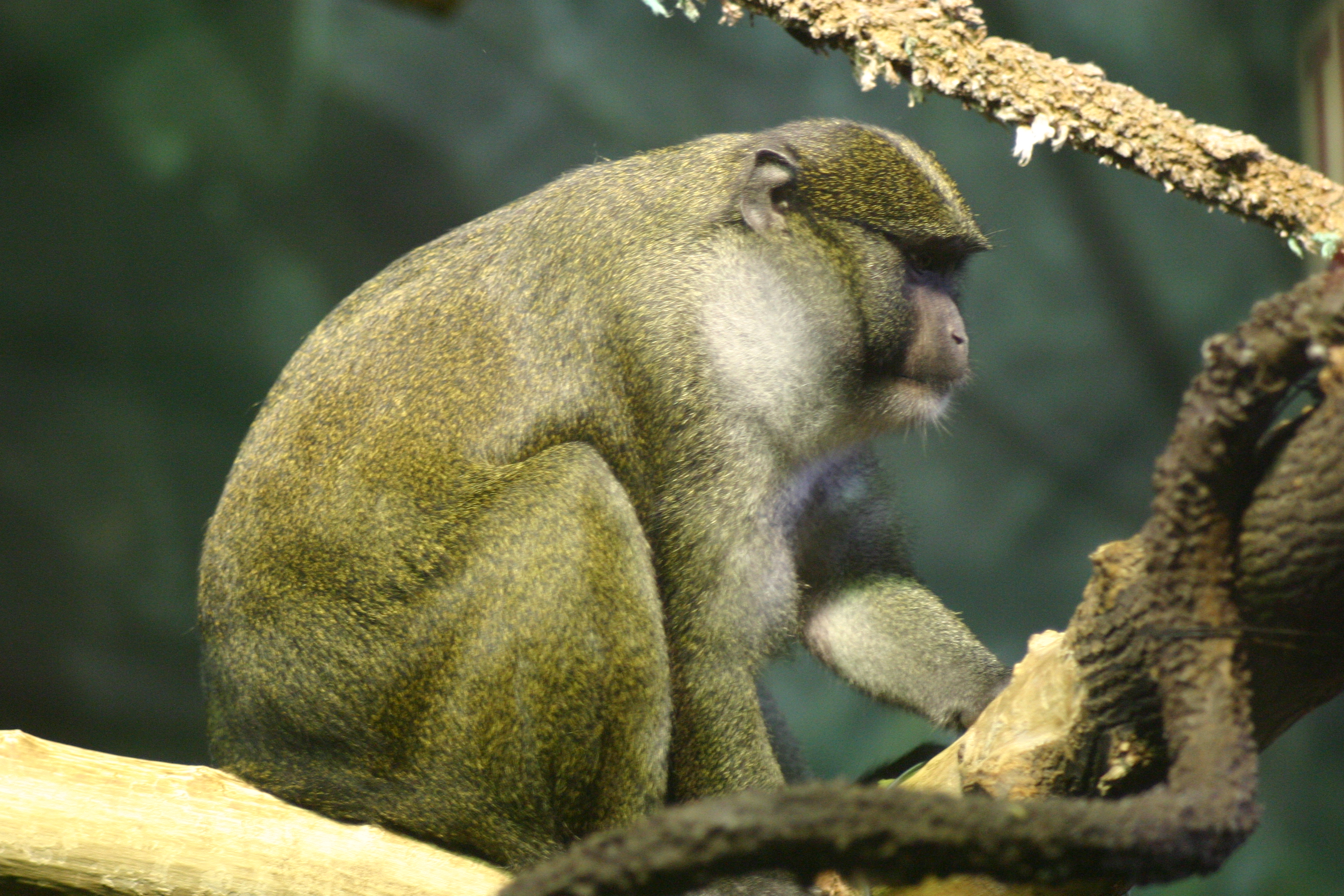 Allen's Swamp Monkey, Allenopithecus nigroviridis, at the Lincoln Park Zoo in Chicago. Taken with a Canon Digital Rebel and a manual-focus Nikon-mount Vivitar 135/2.8. ISO 800, 1/100s.